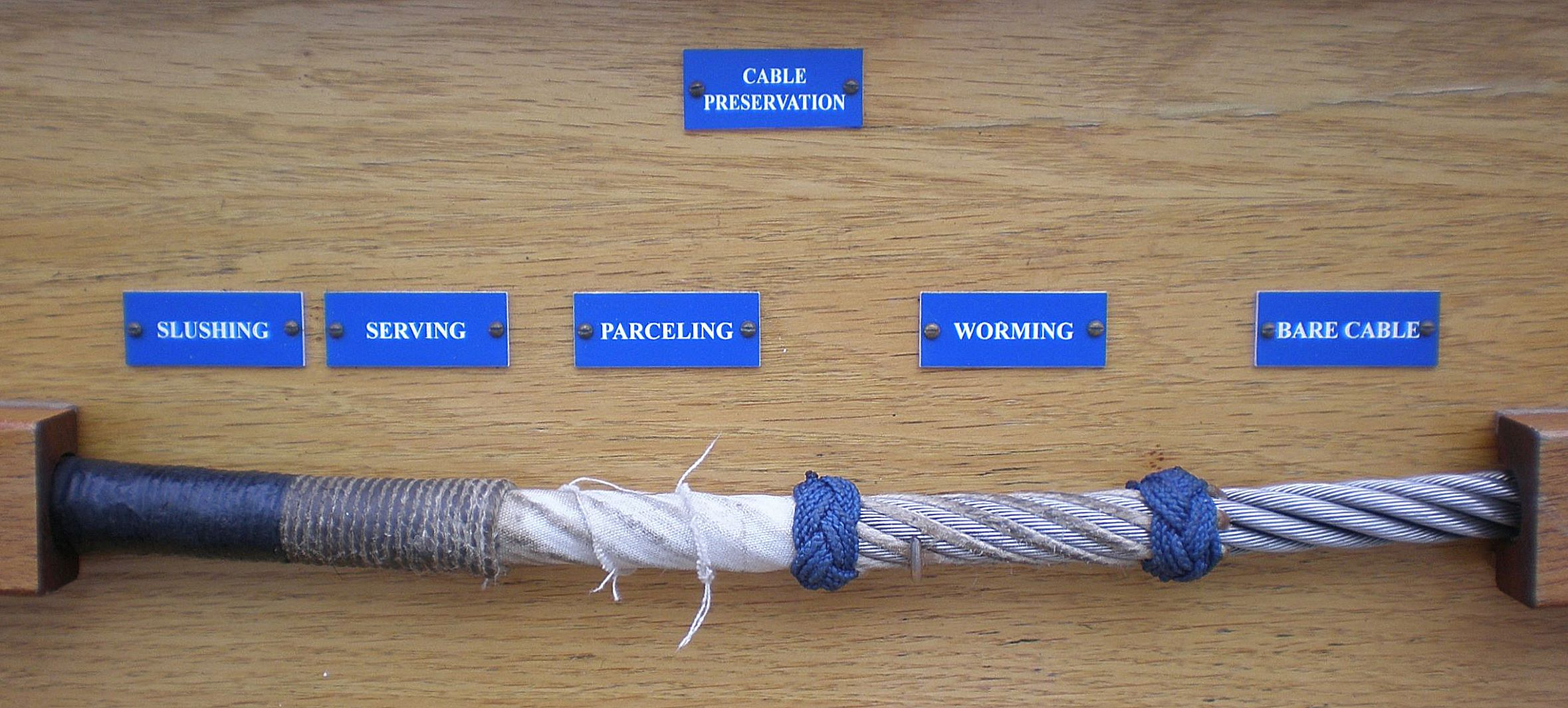 A sample of cable preservation displayed on the USCGC Eagle (WIX-327) while docked during the Festival of Sail San Francisco 2008.